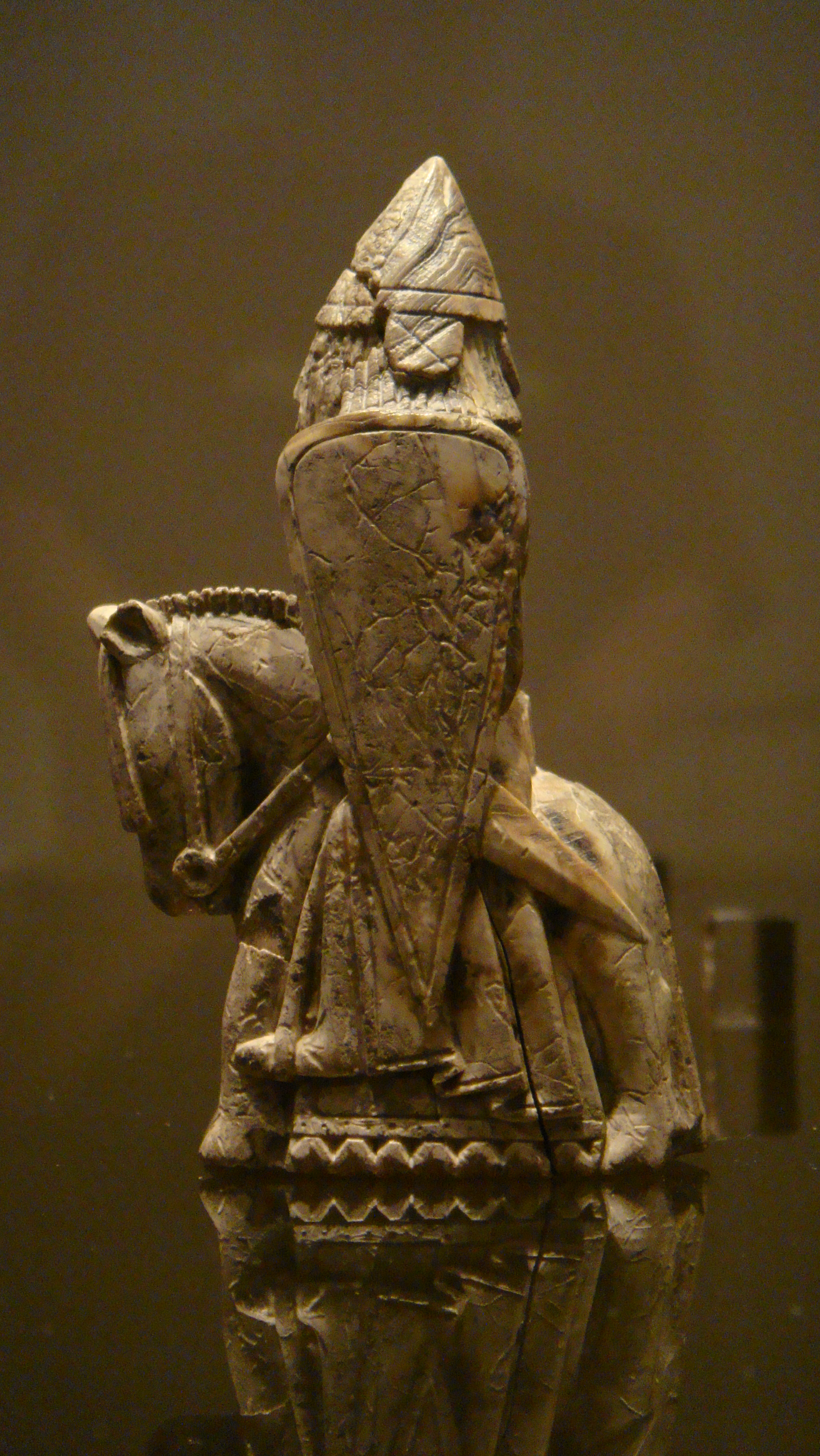 Exhibition in the National Museum of Scotland. Pieces from the British Museum and other collections. A knight with number of permanent collection NMS 27